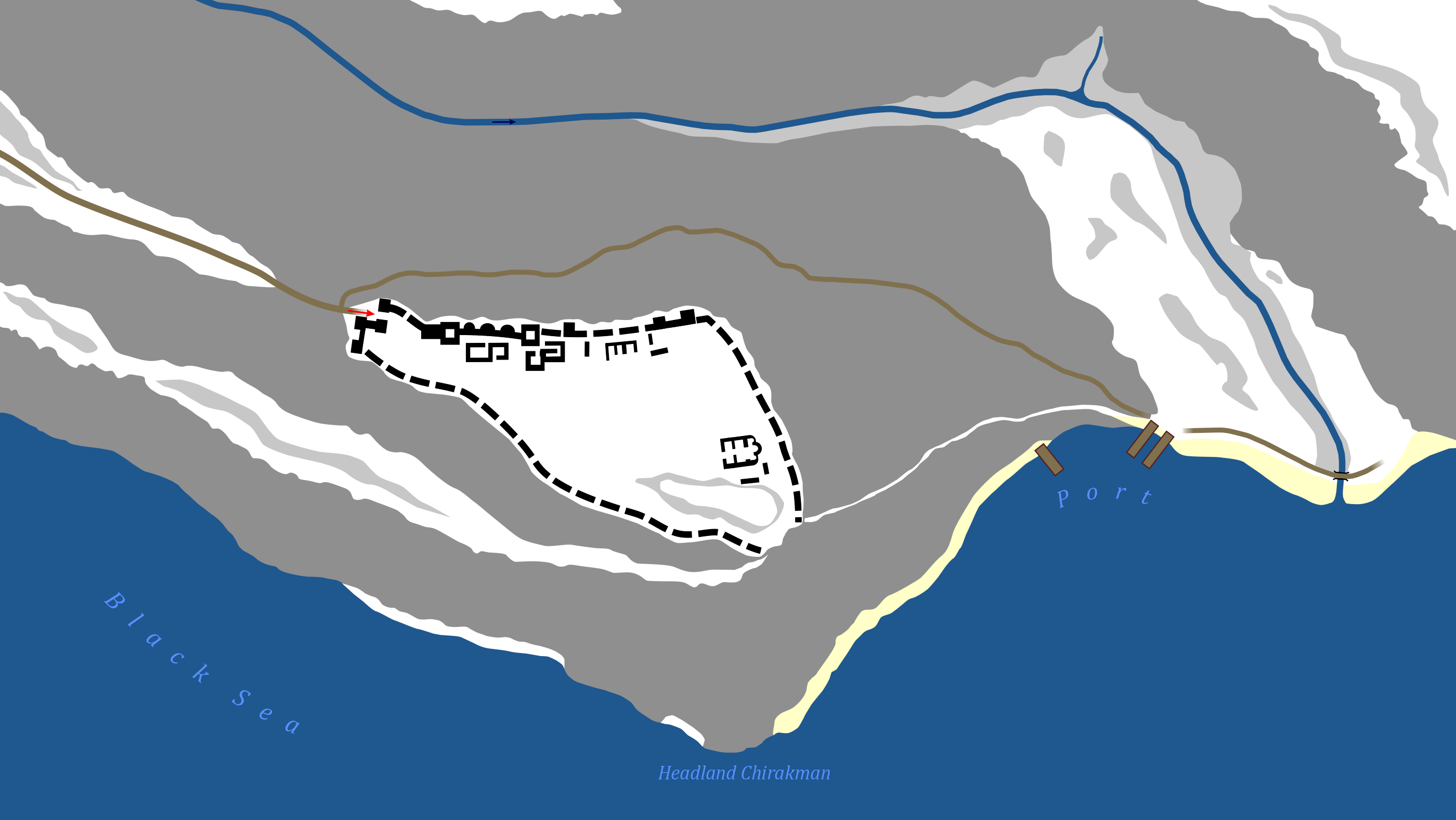 Plan of the medieval Bulgarian fortress Kavarna. Based on: [1]